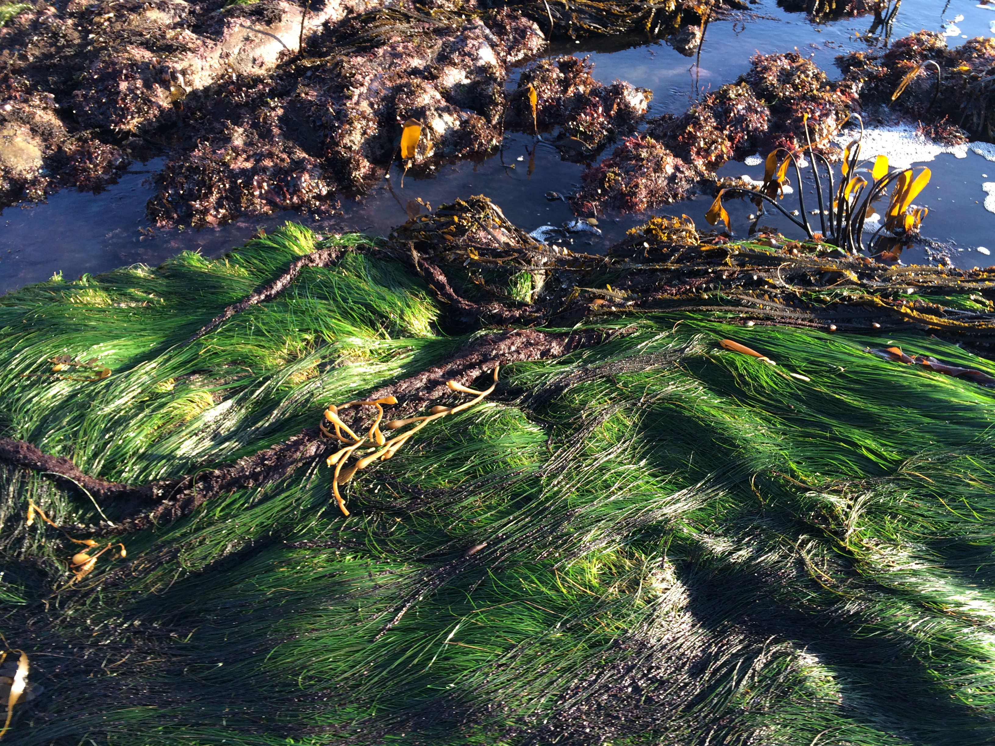 Surf grass, feather boa kelp, Laminaria setchelii, floats from Giant kelp. At North Moonstone tide pool, -1.3 low tide.